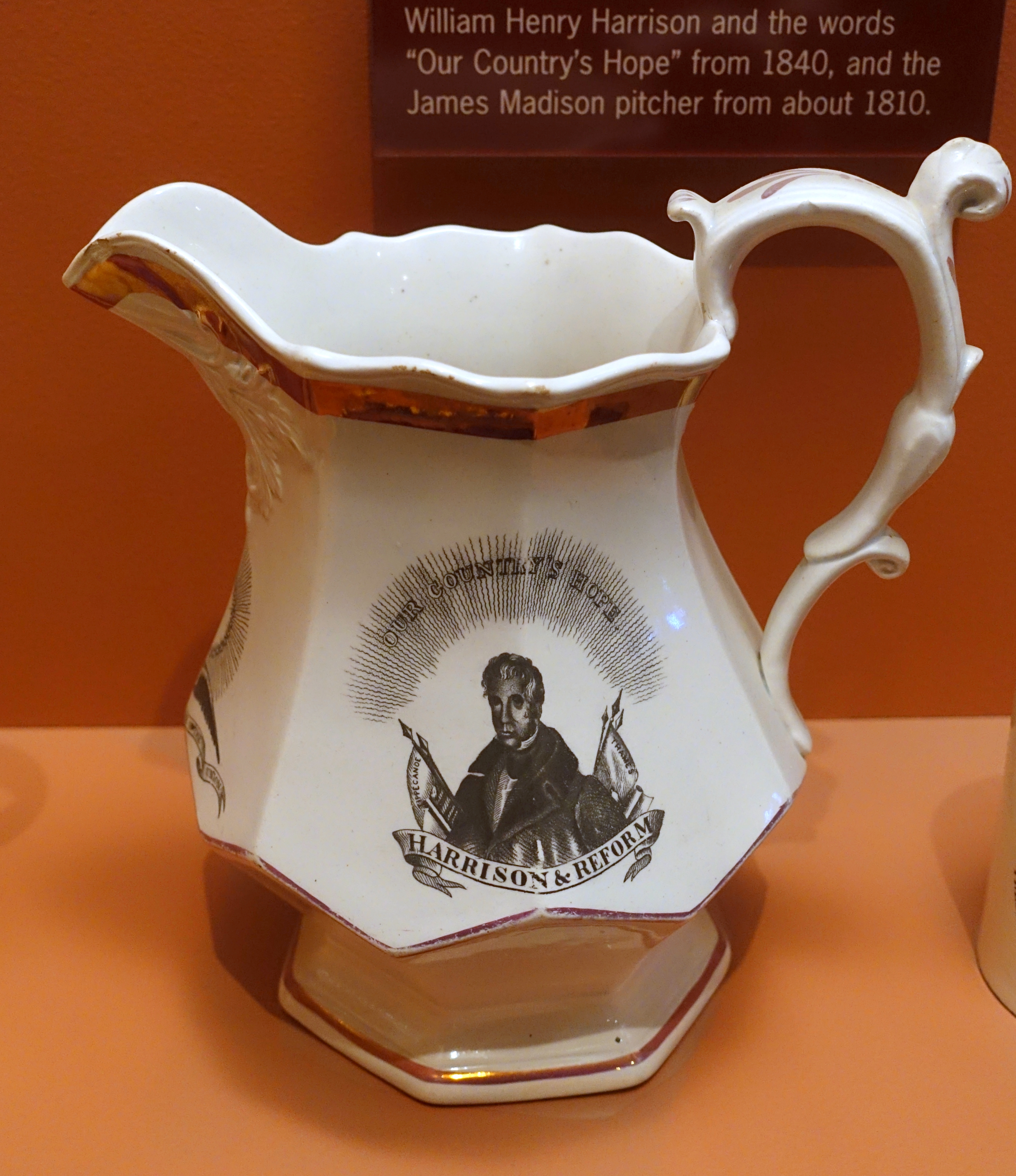 Exhibit in the National Museum of American History, Washington, DC, USA.